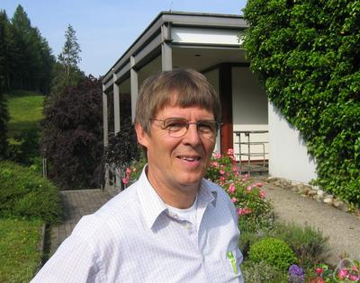 Mathematician Gert-Martin Greuel in Oberwolfach, 2006.